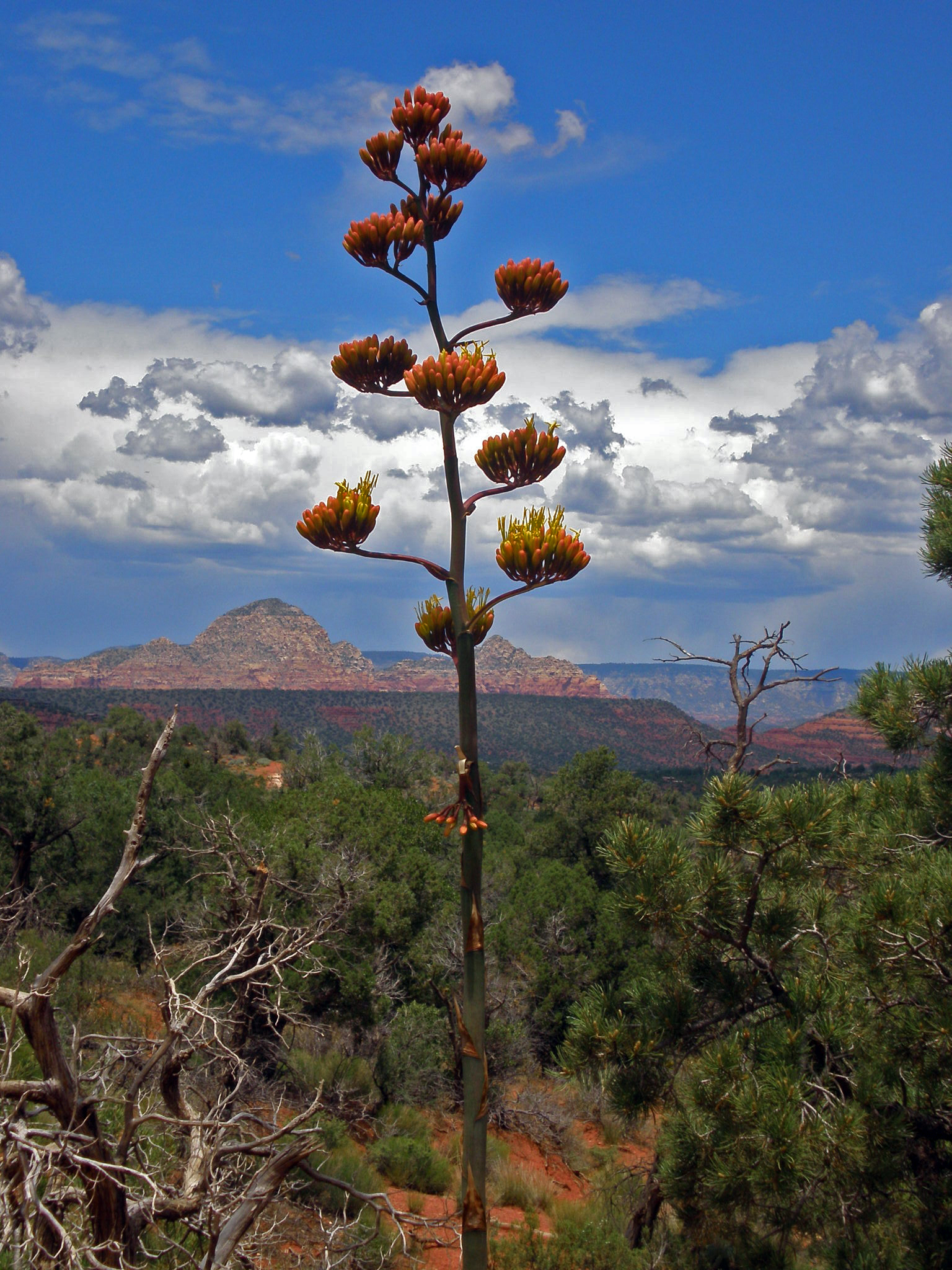 A Century Plant springs up along the hiking trail just north of Bell Rock. Taken 5-31-09 by Brady Smith. Credit: USDA Forest Service, Coconino National Forest.